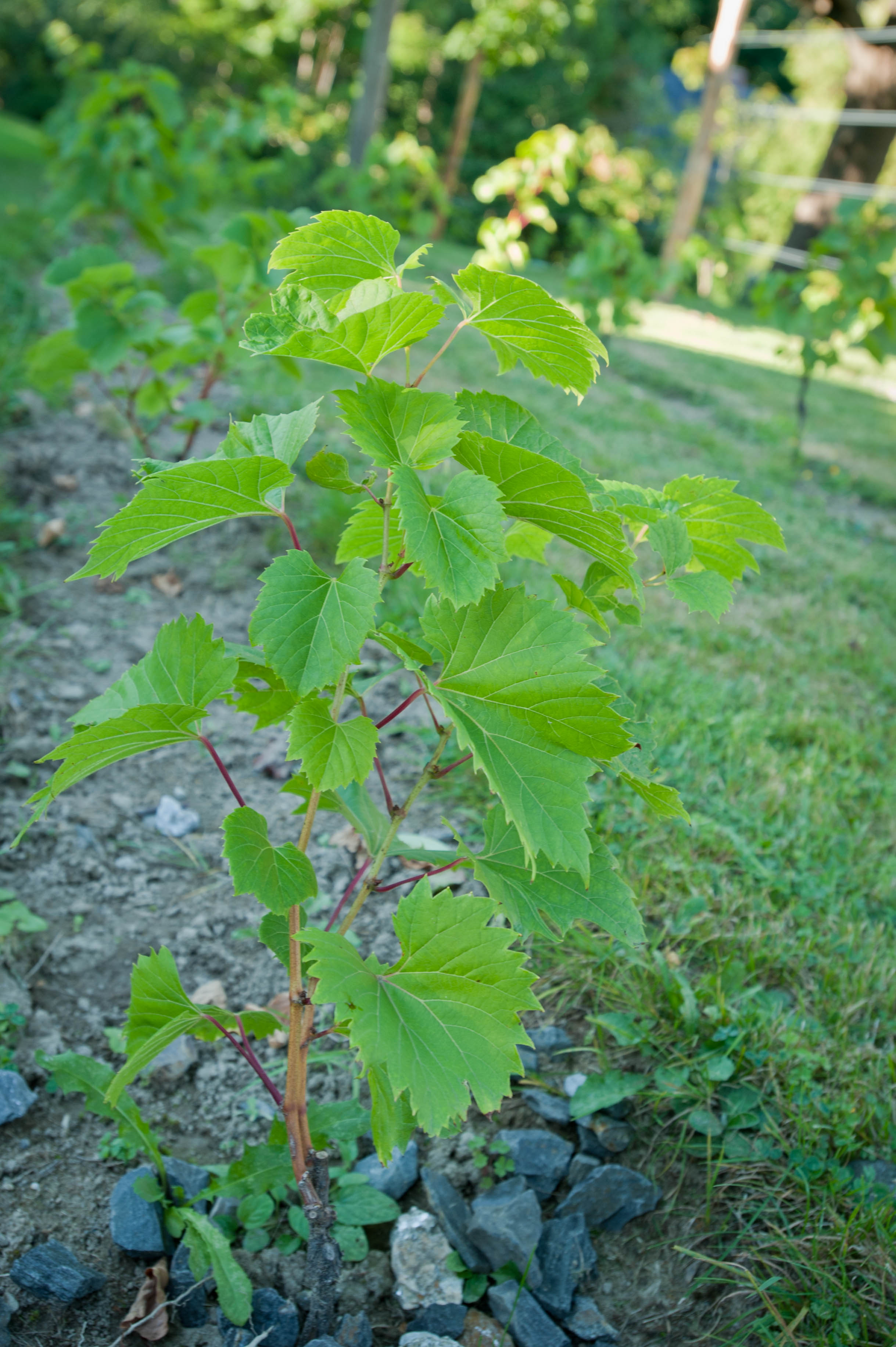 A young Frontenac gris vine before fruiting.